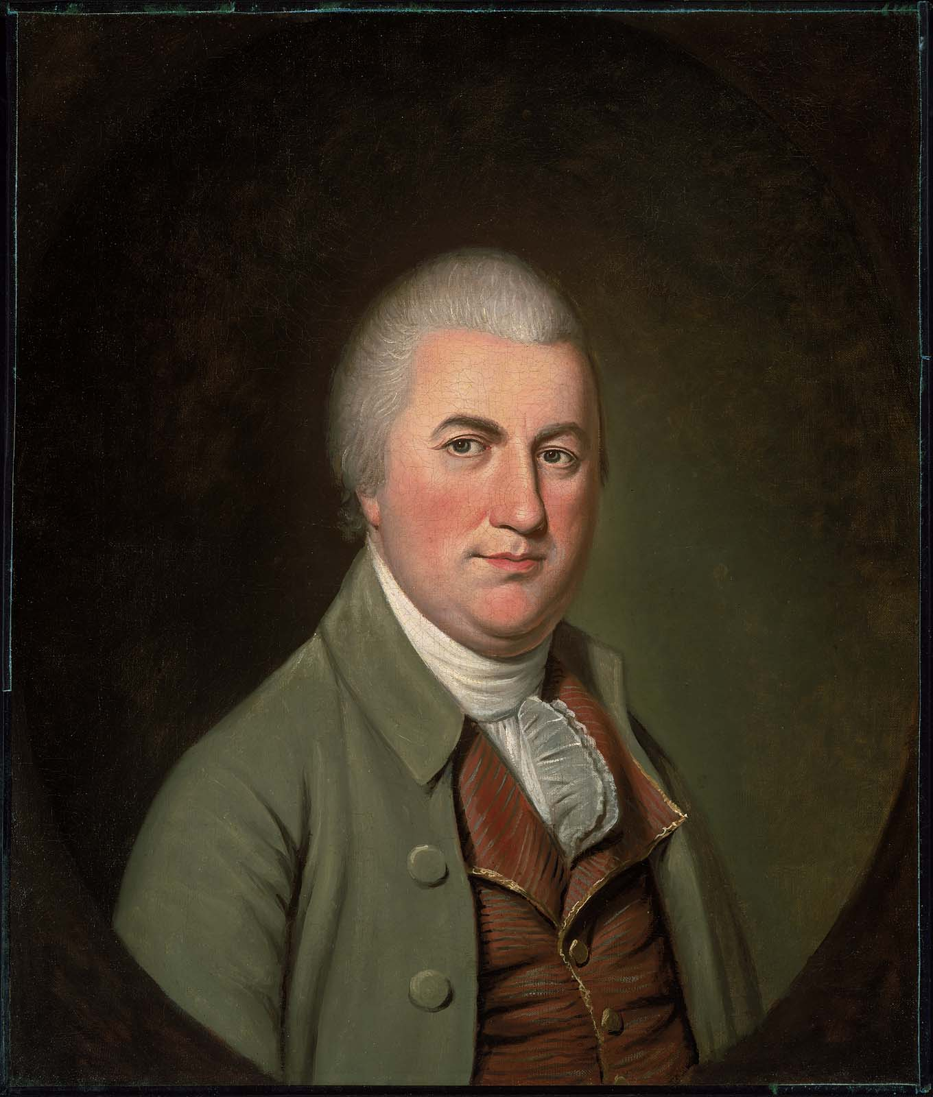 Nathaniel Gorham (1738–1796) by Charles Willson Peale, circa 1793, Museum of Fine Arts, Boston, No: 48.1356. Gorham served as President of Congress from June 6, 1786 to November 3, 1786.